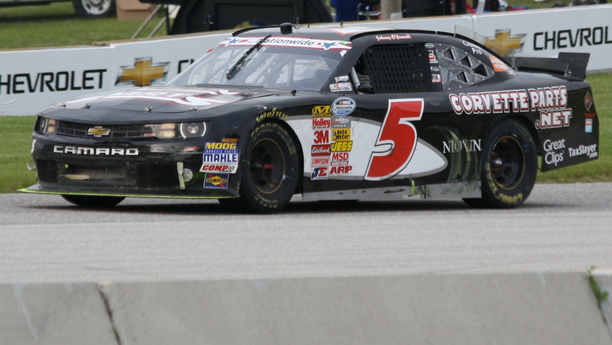 The NASCAR Nationwide car of Johnny O'Connell during the w:2013 Johnsonville Sausage 200 at Road America.